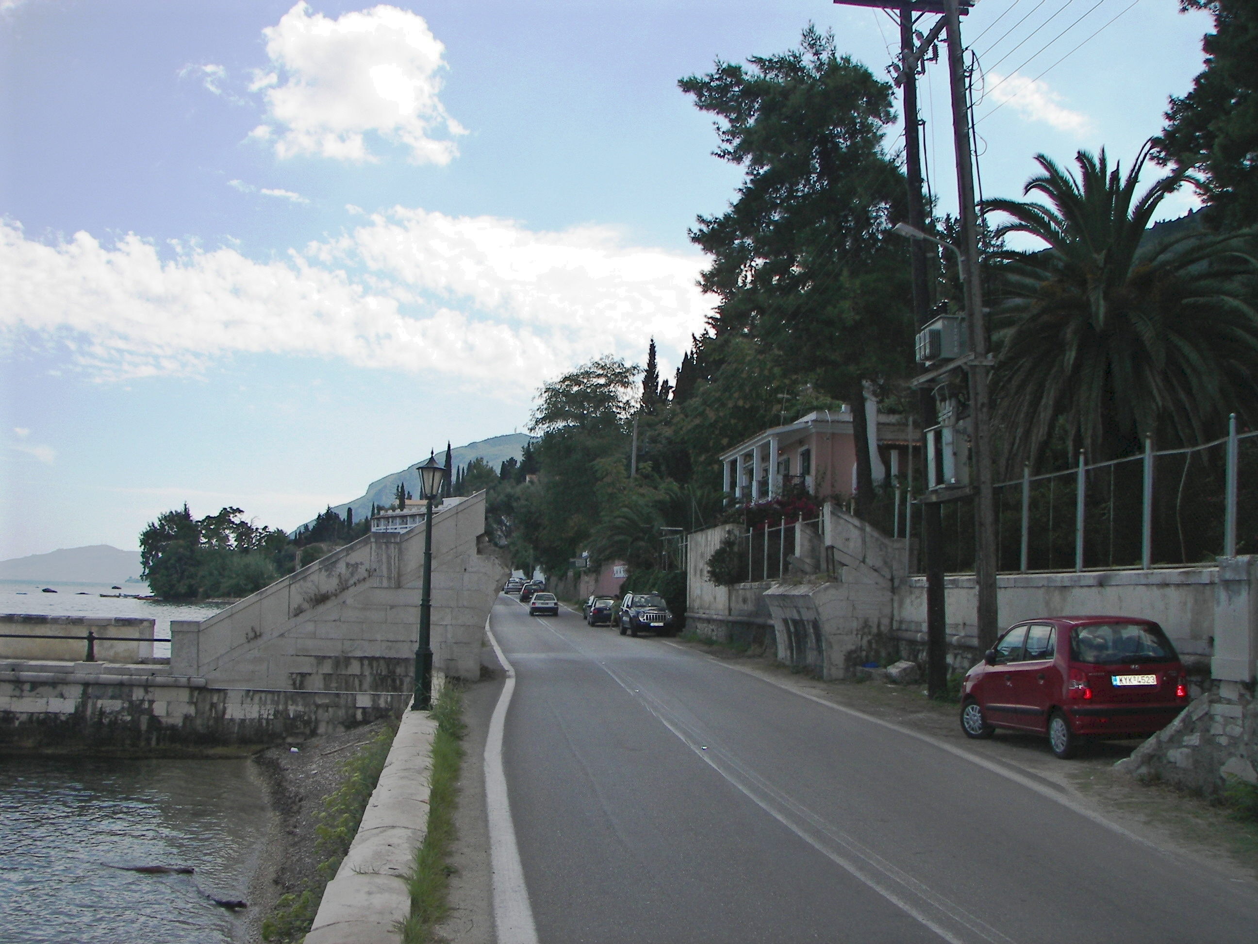 Please see filename